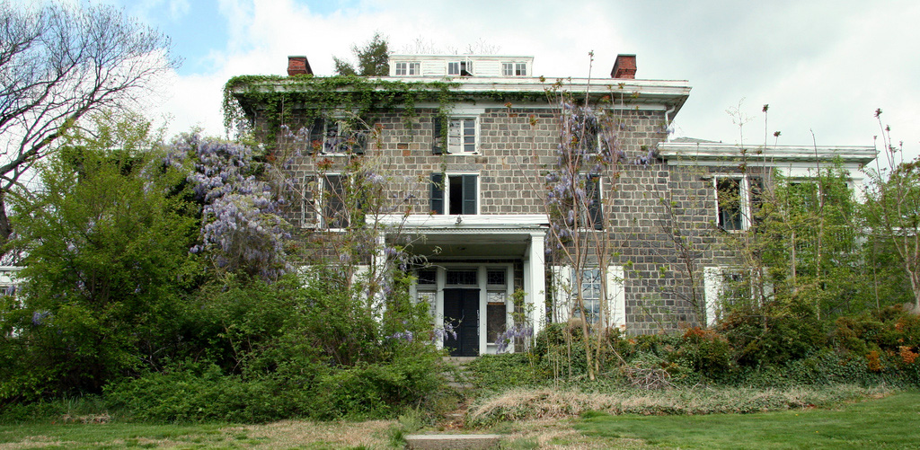 Front entrance of the Gibraltar mansion in Wilmington, DE